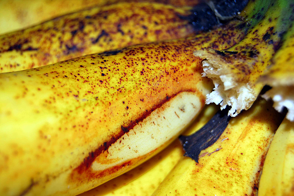 Lacatan variety of banana.